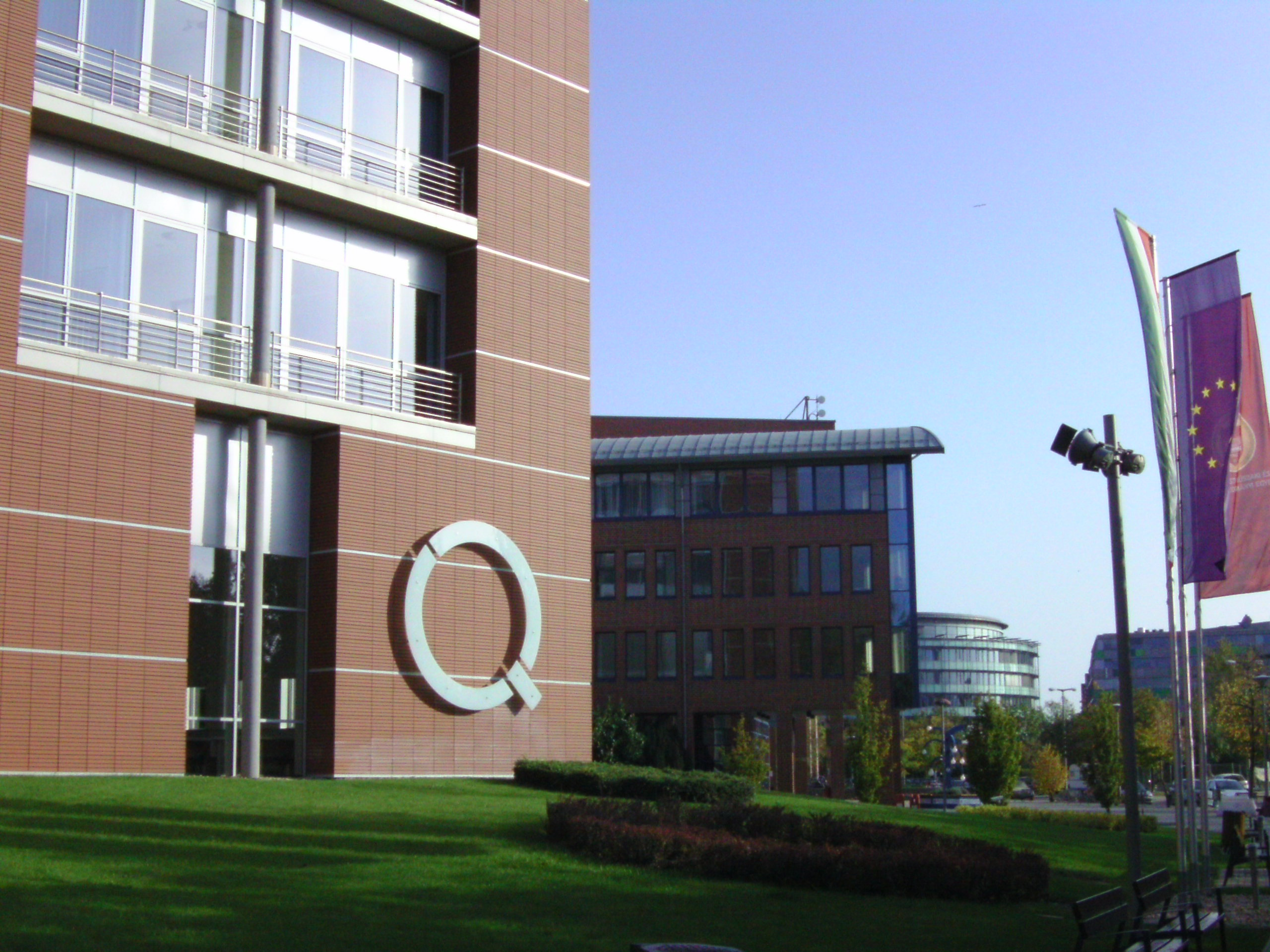 Budapest University of Technology and Economics. 'Q' Building.- XI. Magyar tudósok körútja 2.